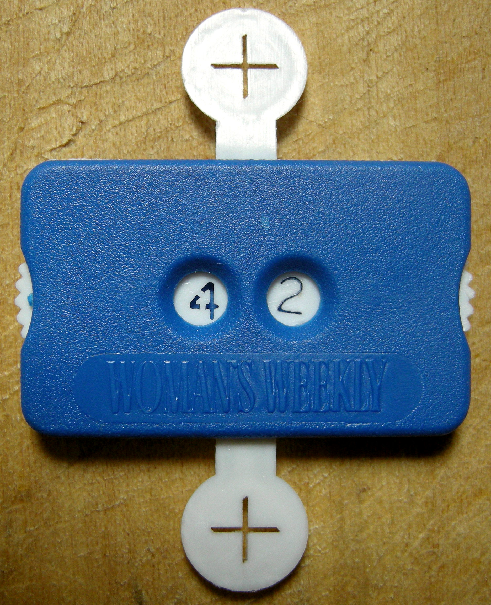 Plastic on-needle knitting row counter of unusual design given away by UK magazine Woman's Weekly in 1980s-1990s. It was presented as a self-assembly kit, in a small blue envelope with assembly instructions and a diagram on the back. According to the diagram, the gadget consists of (a) two blue front and back plates, pierced to show the numbers; (b) an inner white soft plastic frame to hold the number discs and to which are attached the two loops to bend back and thread on the needle; (c) the two number discs. So the disks don't spin on an axis; they spin within circular spaces in the inner frame. The example in the photograph is so tightly assembled as to give excessive friction to the discs, which do not turn easily.